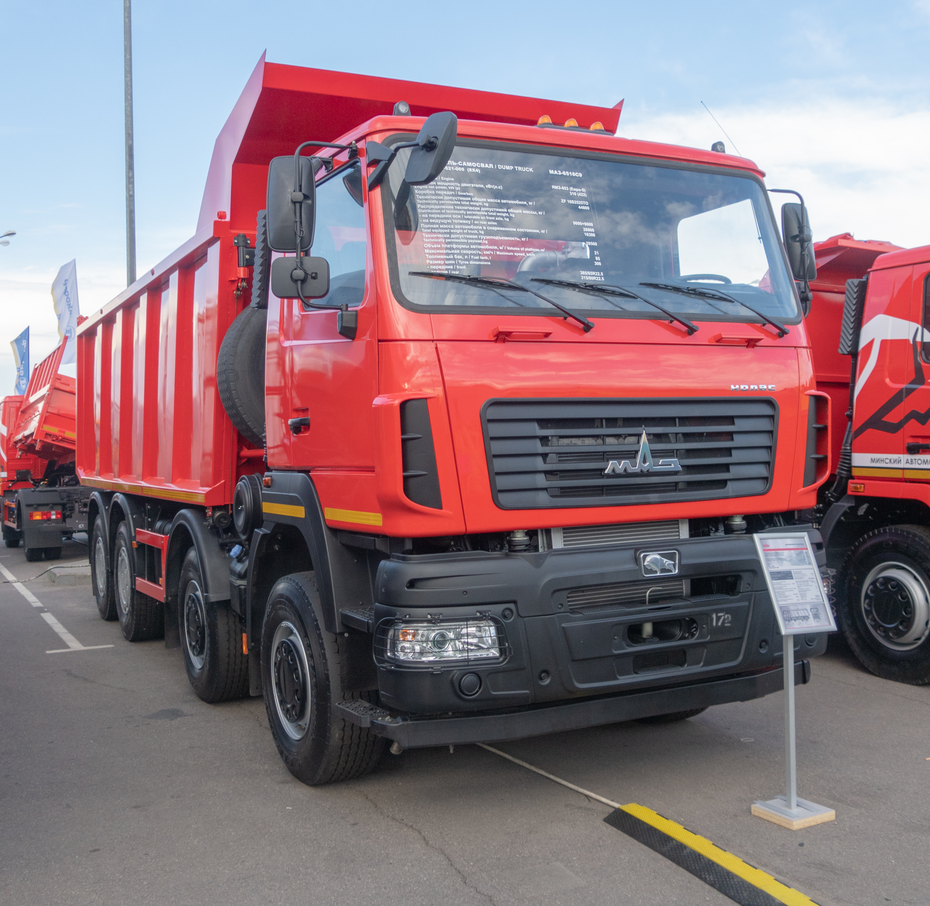 MAZ-6516C9 dump truck. Photo taken at Belagro-2019 exhibition (Minsk district, Belarus)